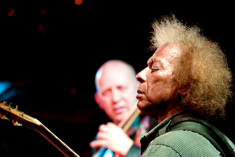 Franky Douglas